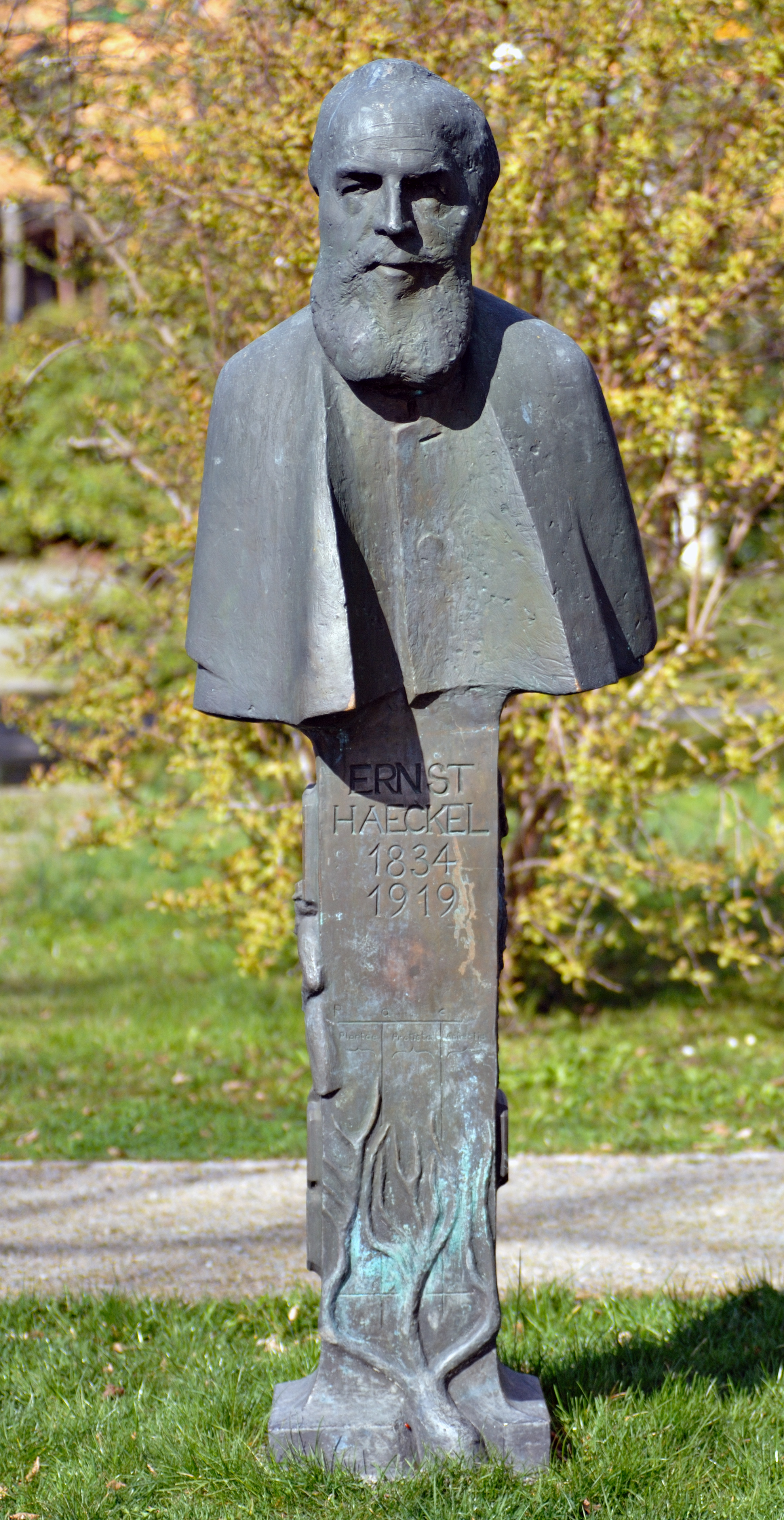 This image shows the Ernst Haeckel statue located in the botanical garden in Chemnitz, Saxony.